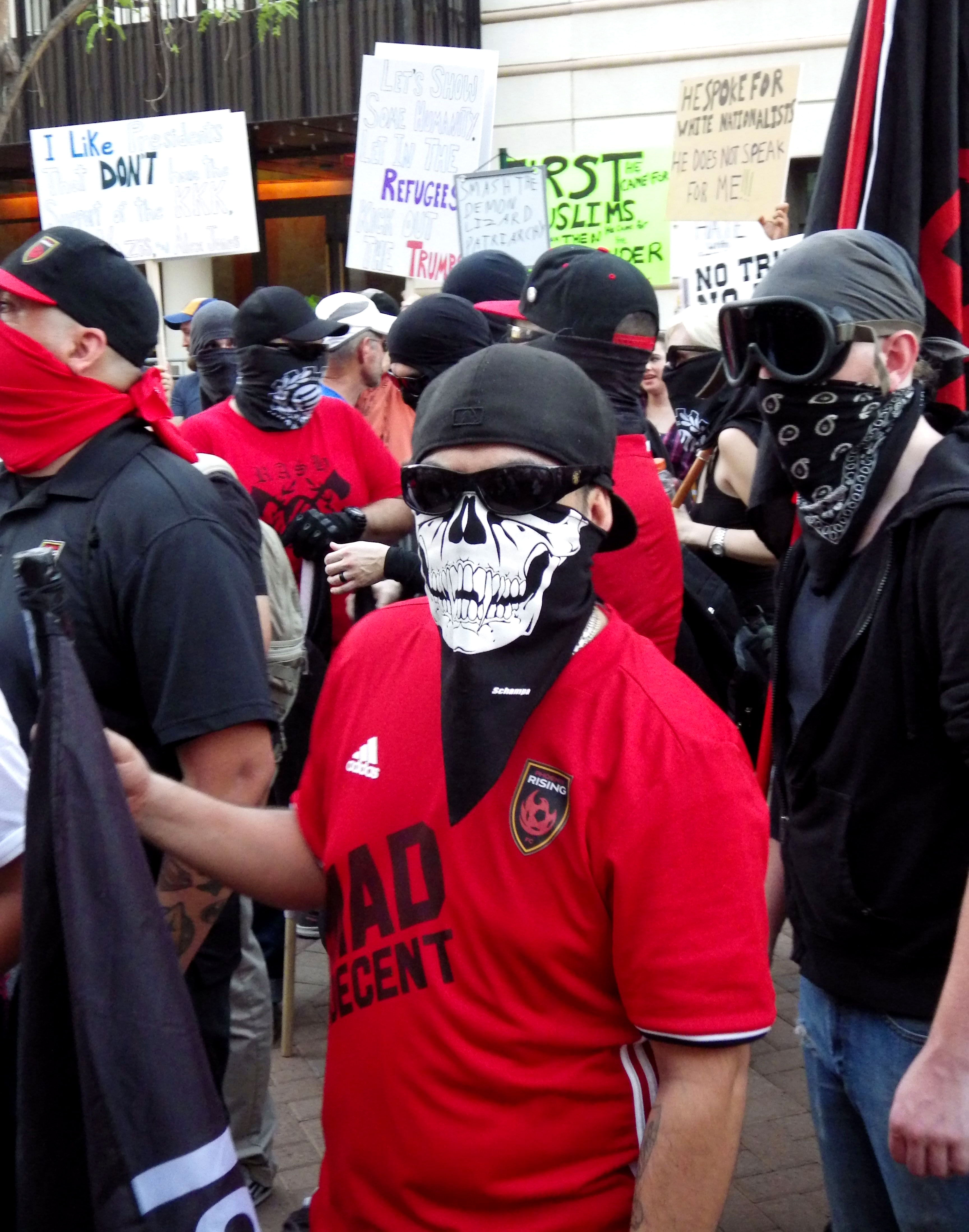 Antifa people @ Trump in Phoenix 8/22/17